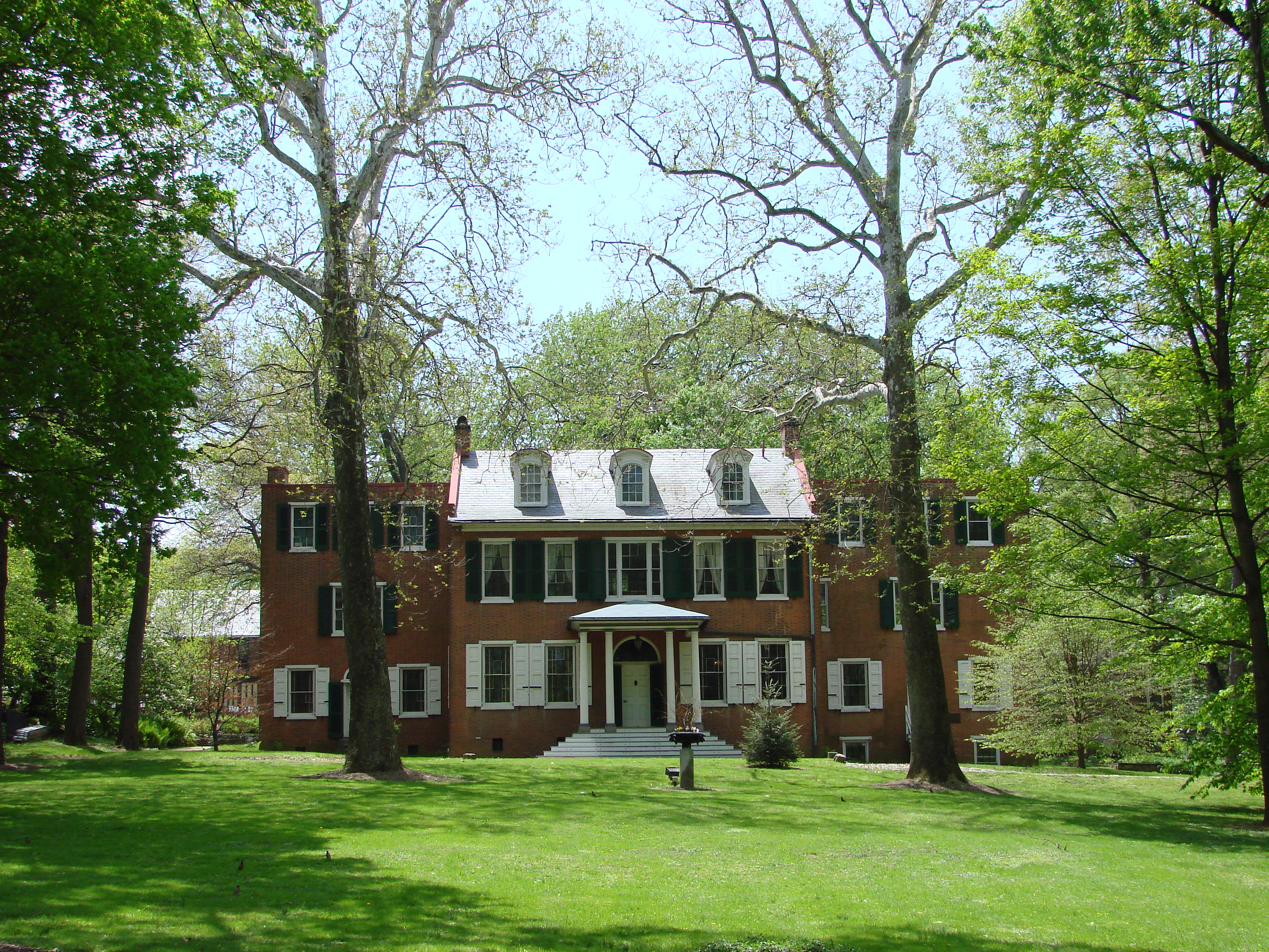 The former home of President James Buchanan, from the front yard, outside of Lancaster, Pennsylvania.